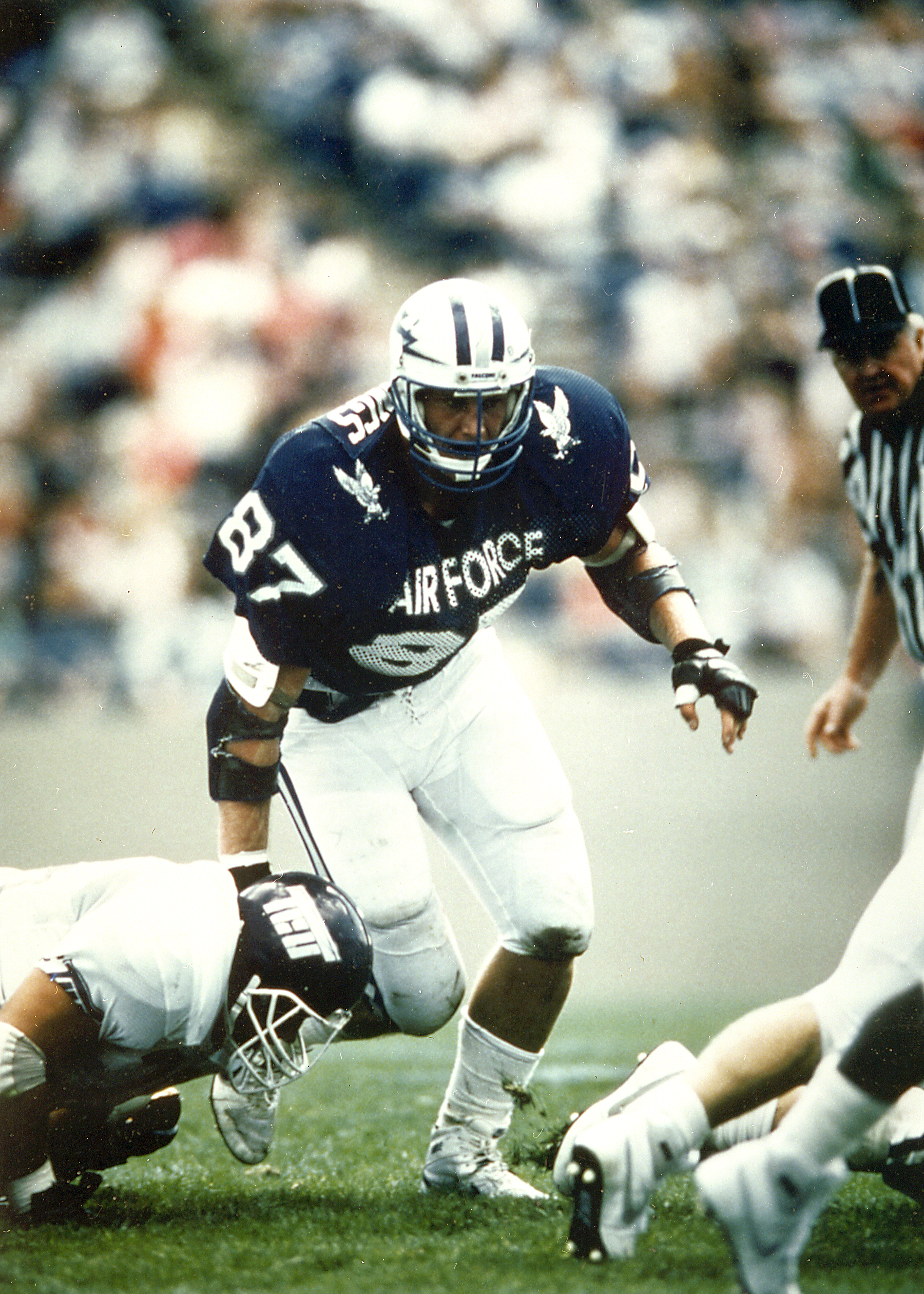 Chad Hennings, American Football player